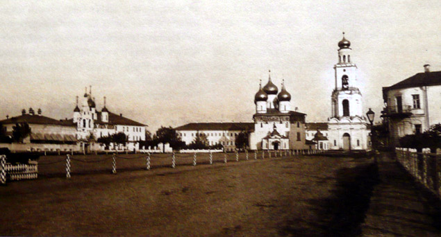 View on Cathedral Square in Yaroslavl